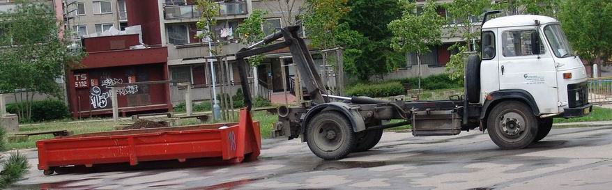 A truck, Avia (license Saviem), just put this red trash container down